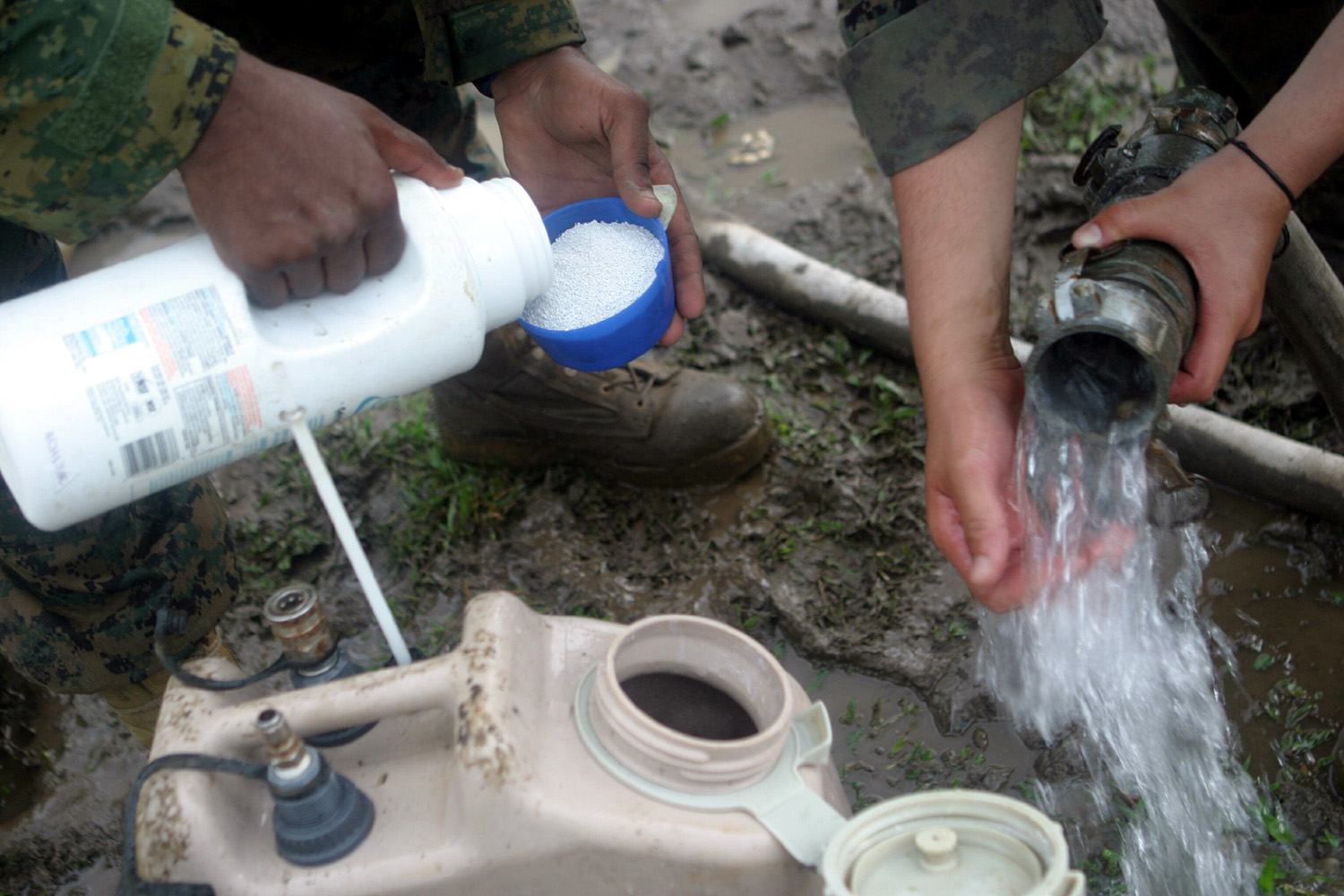 Leyte, Philippines (Feb. 20, 2006) – U.S. Marines add chlorine crystals to the water in order to create a water-purification solution. The solution will be added to the water flowing through the reverse-osmosis purification unit, which is being used by the 31st Marine Expeditionary Unit (MEU) Service Support Group 31 following a massive landslide that buried a village in the southern part of the island of Leyte. Sailors and Marines from the Forward Deployed Amphibious Ready Group (ARG), USS Essex (LHD 2) and USS Harpers Ferry (LSD 49), arrived off the coast of Leyte Feb. 19 to provide humanitarian assistance and disaster relief to victims of the landslide. U.S. Marine Corps photo by Lance Cpl. Willard J. Lathrop (RELEASED)